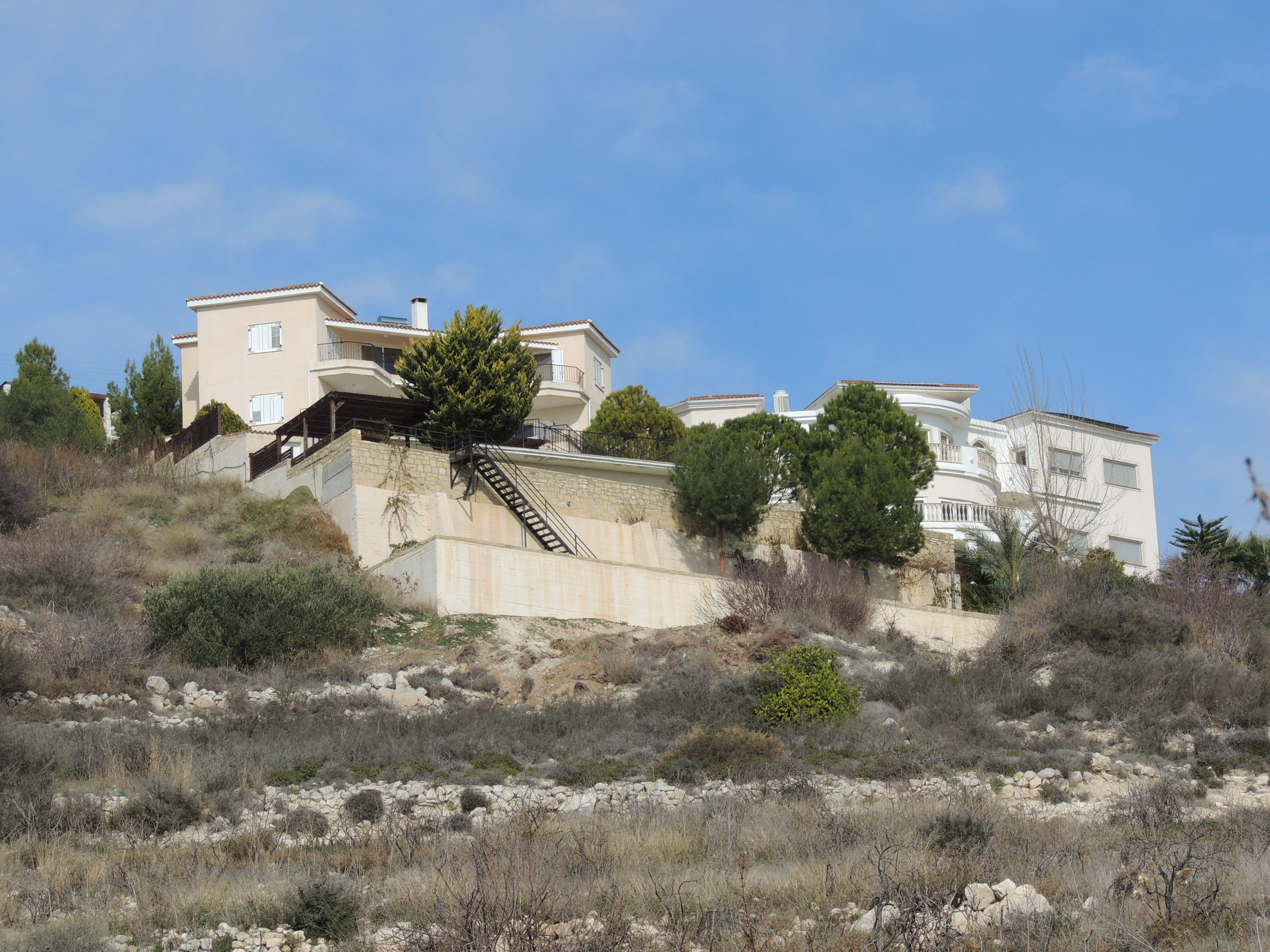 Tremithousa, Cyprus